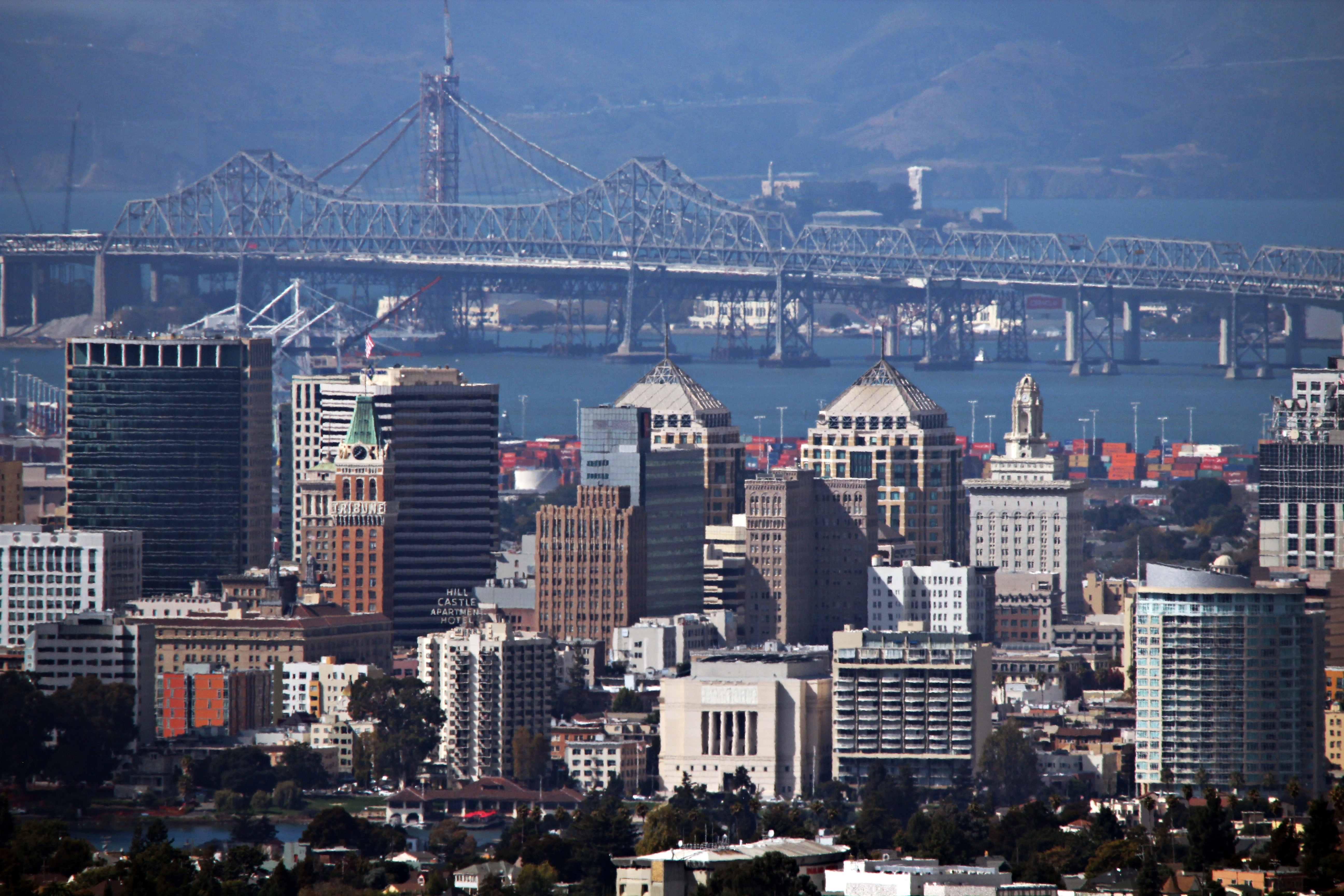 The Oakland skyline as seen from the Oakland hills. Oakland, CA has a population of about 400,000 and functions as the principal port city of Northern California. Both the old and new eastern span of the San Francisco-Oakland Bay Bridge can be seen in the background. It carries over 270,000 vehicles each day between the San Francisco Peninsula and the East Bay.